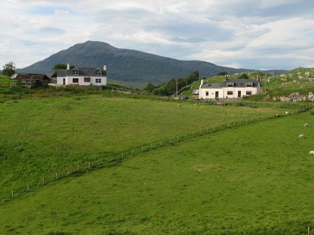 Elphin The hamlet of Elphin is known for its lush green fields amongst the moorland of Inver Polly. Beyond the houses, Canisp rises to the north.